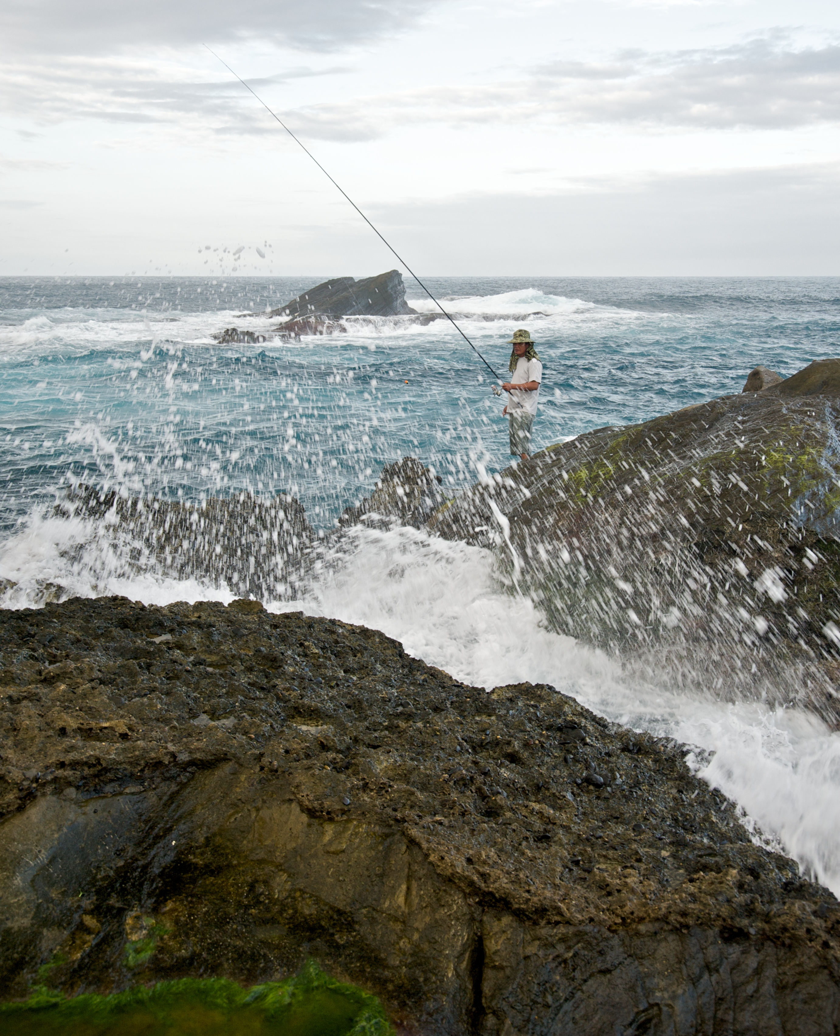 Rock fishing at ShihTiPing (giant stone steps) coastal area in Taiwan